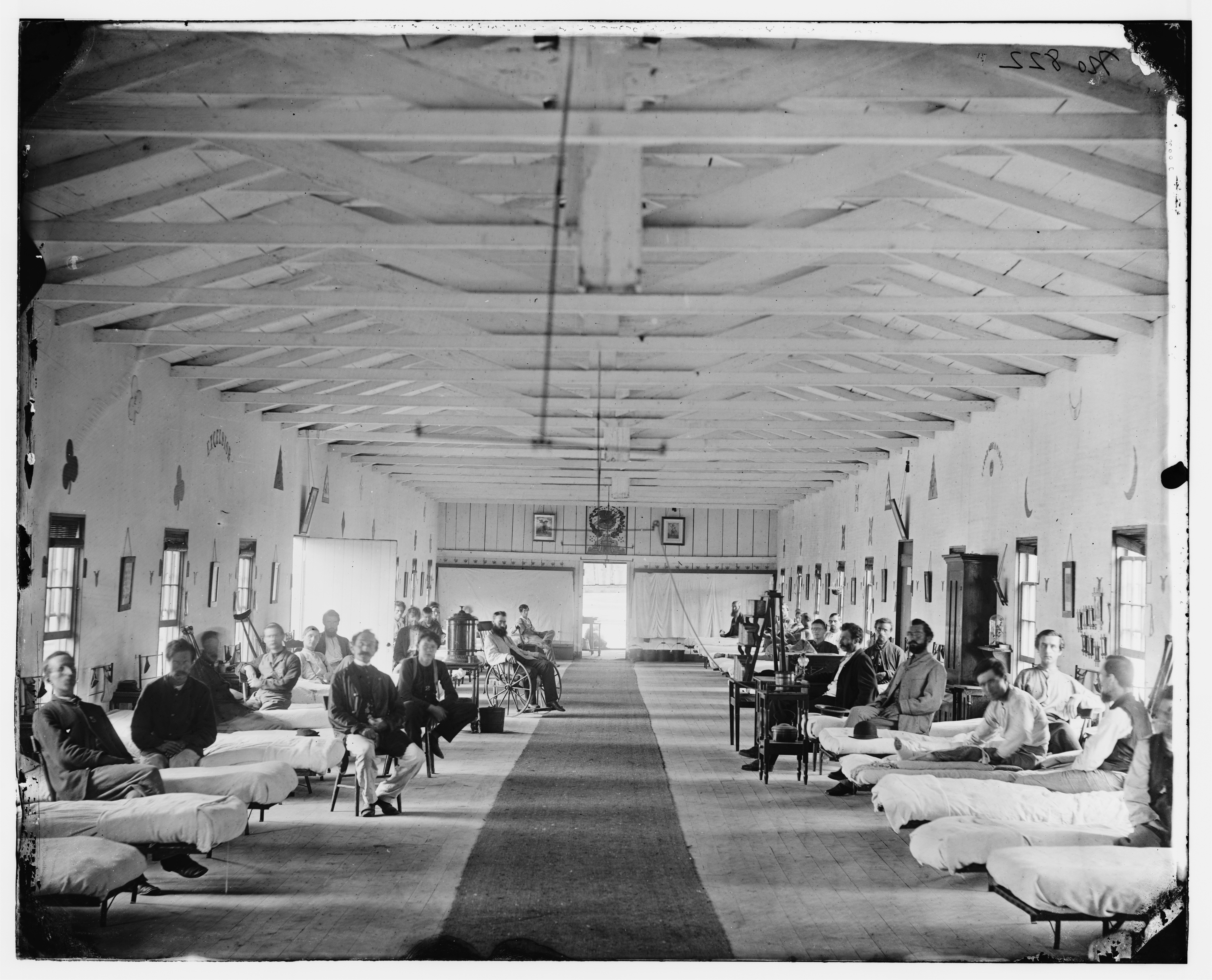 Title: Washington, D.C. Patients in Ward K of Armory Square Hospital Abstract: Selected Civil War photographs, 1861-1865 (Library of Congress) Physical description: 1 negative : Notes: Hospitals.